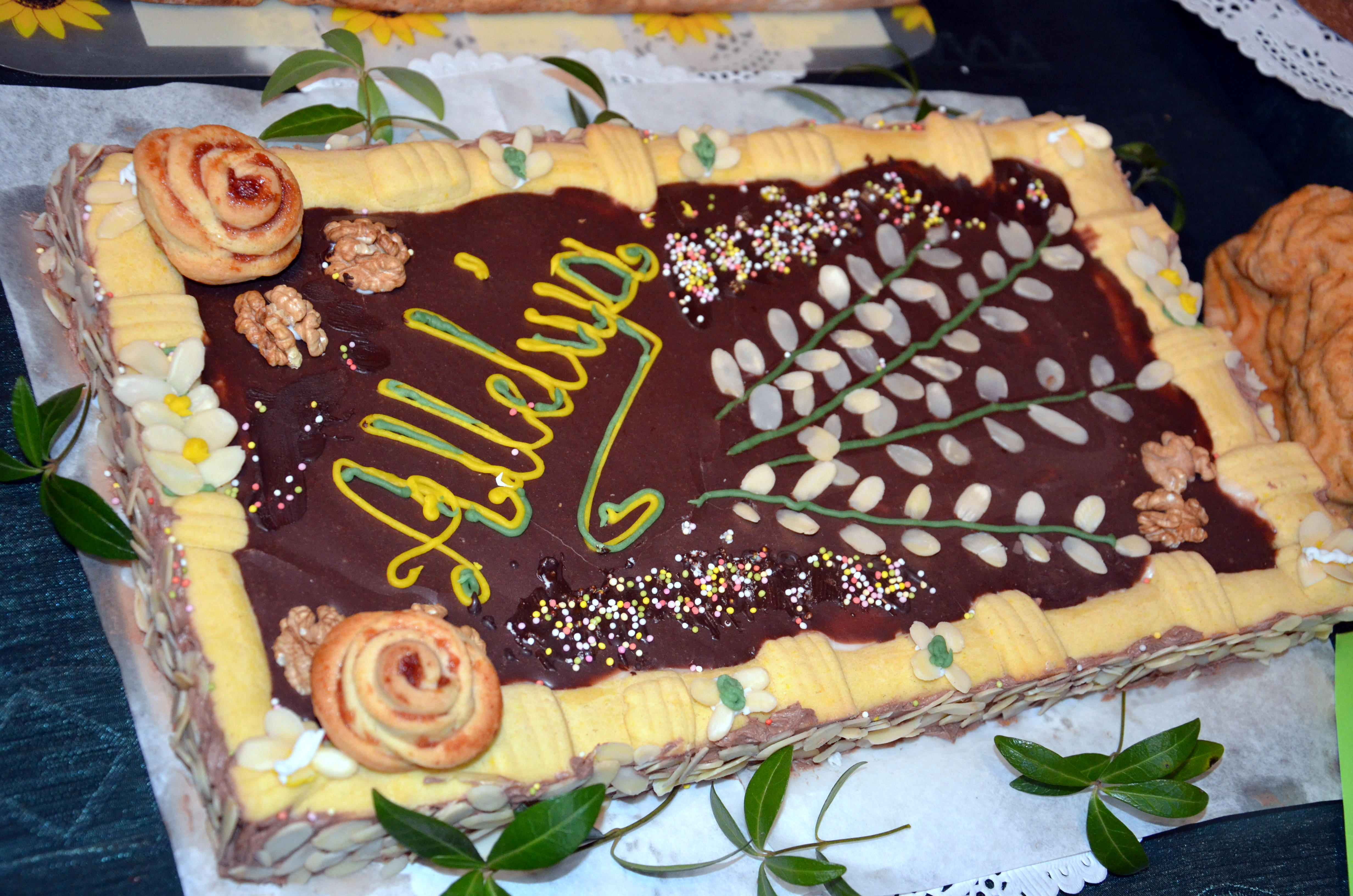 April 2014 in Sanok